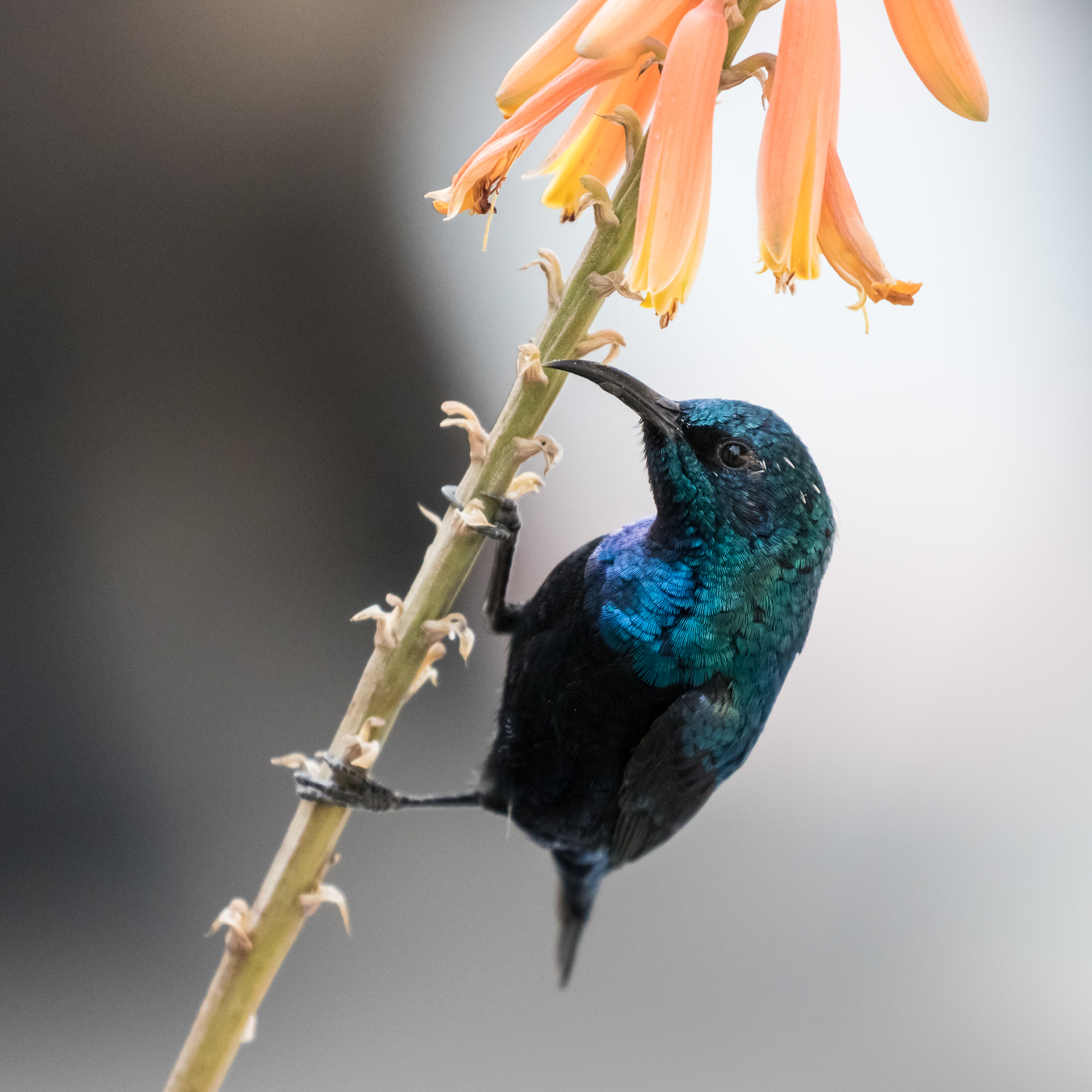 Purple Sun Bird on Aloe vera Flowerat Gurgaon, India.